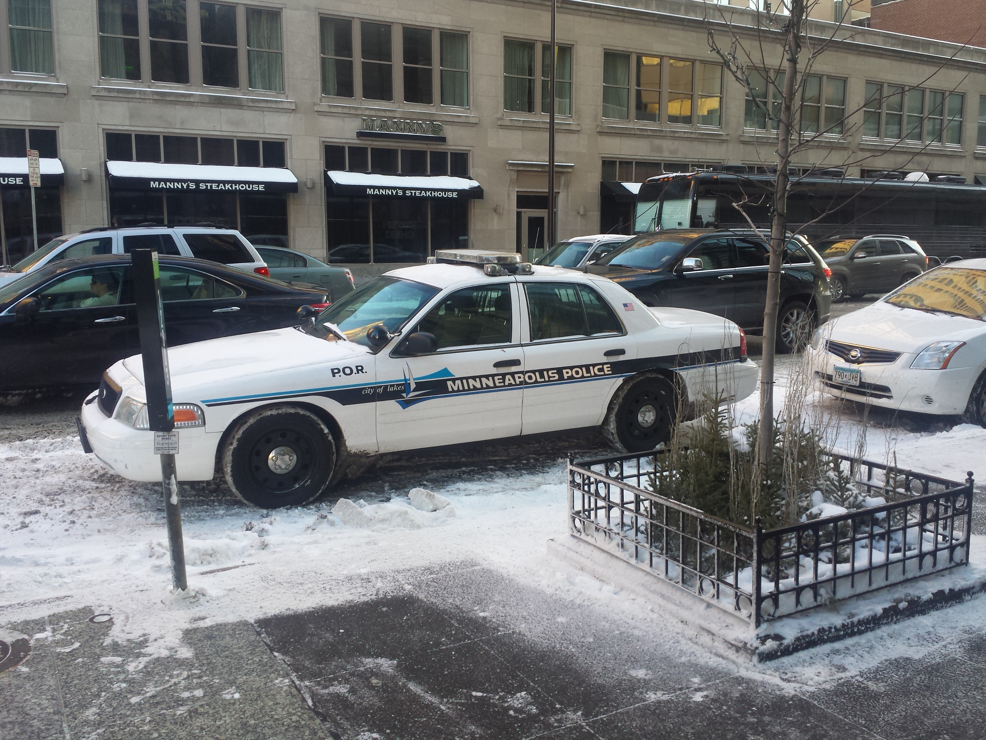 Minneapolis Police Car from early 90's to late 2000s in front of Mannys Steakhouse/Foshay Tower downtown Minneapolis